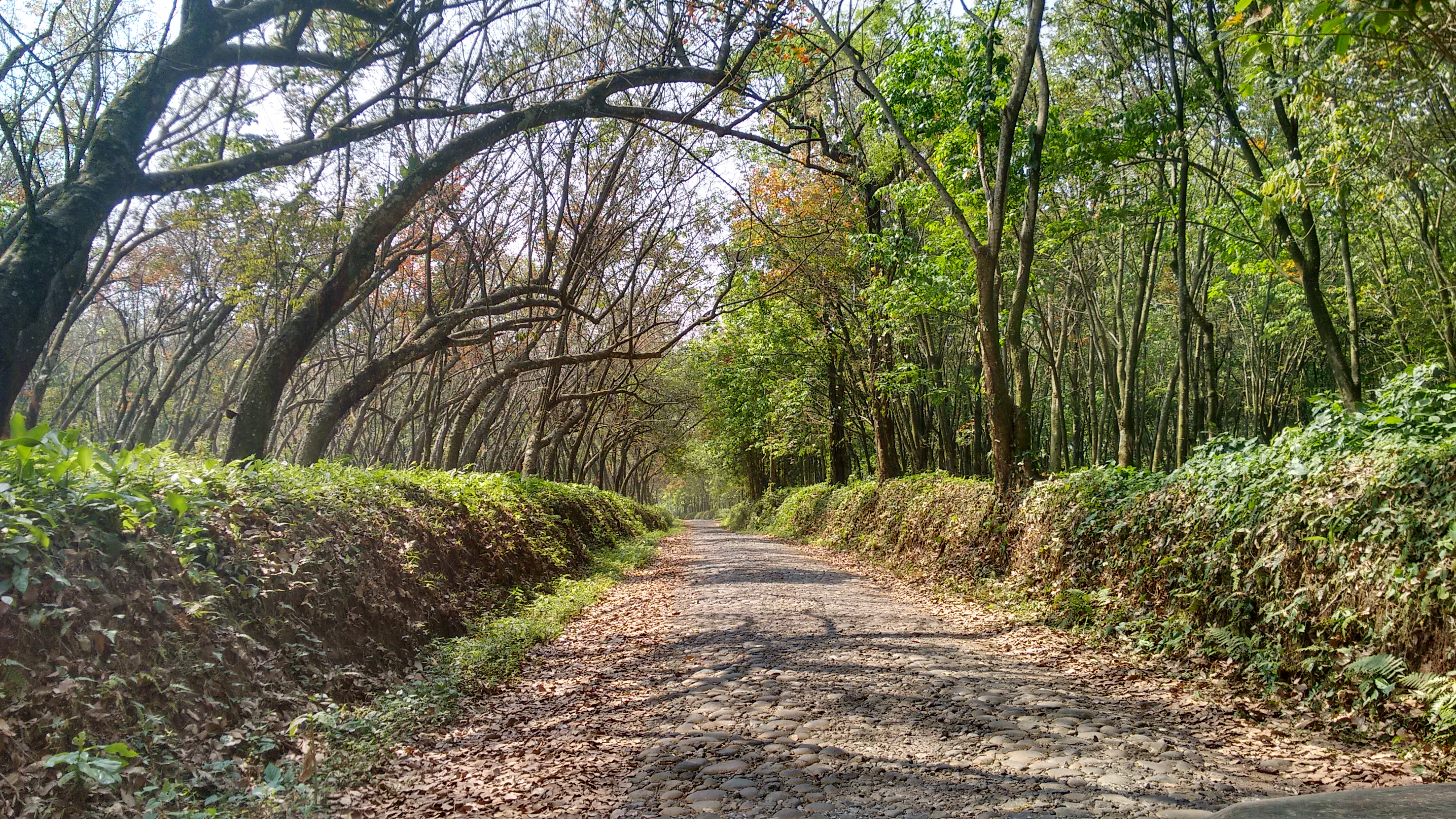 Fincas de Hule en Retalhuleu, Guatemala